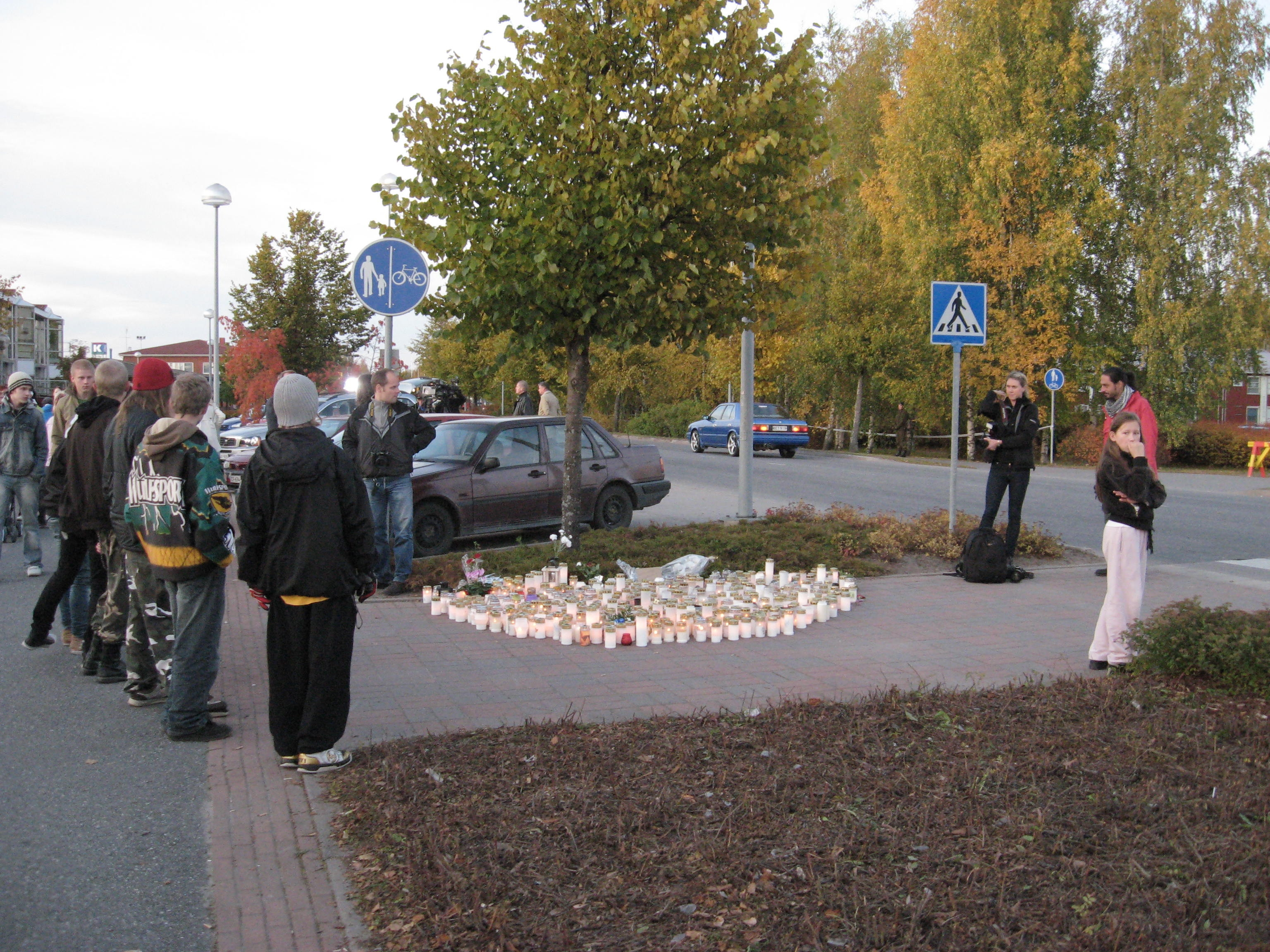 People and candles in front of Kauhajoen koti- ja laitostalousoppilaitos (in Kauhajoki, Finland) one day after shooting incident.